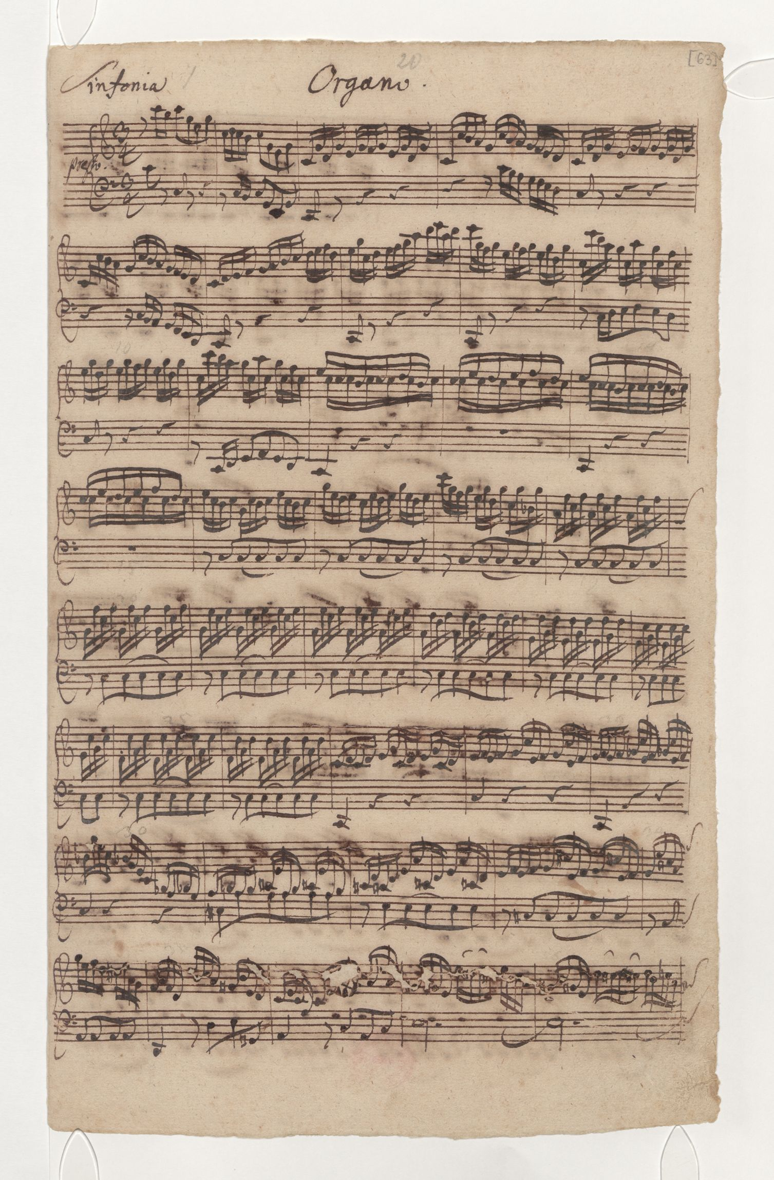 First page of the autograph manuscript of the organ obbligato part in the opening sinfonia of the cantata Wir danken dir, Gott, wir danken dir, BWV 29. According to baroque convention of choir pitch (Chorton in German), the organ was a transposing instrument, so that the key of C major in the manuscript corresponded to the orchestral key of D major, a major second higher.